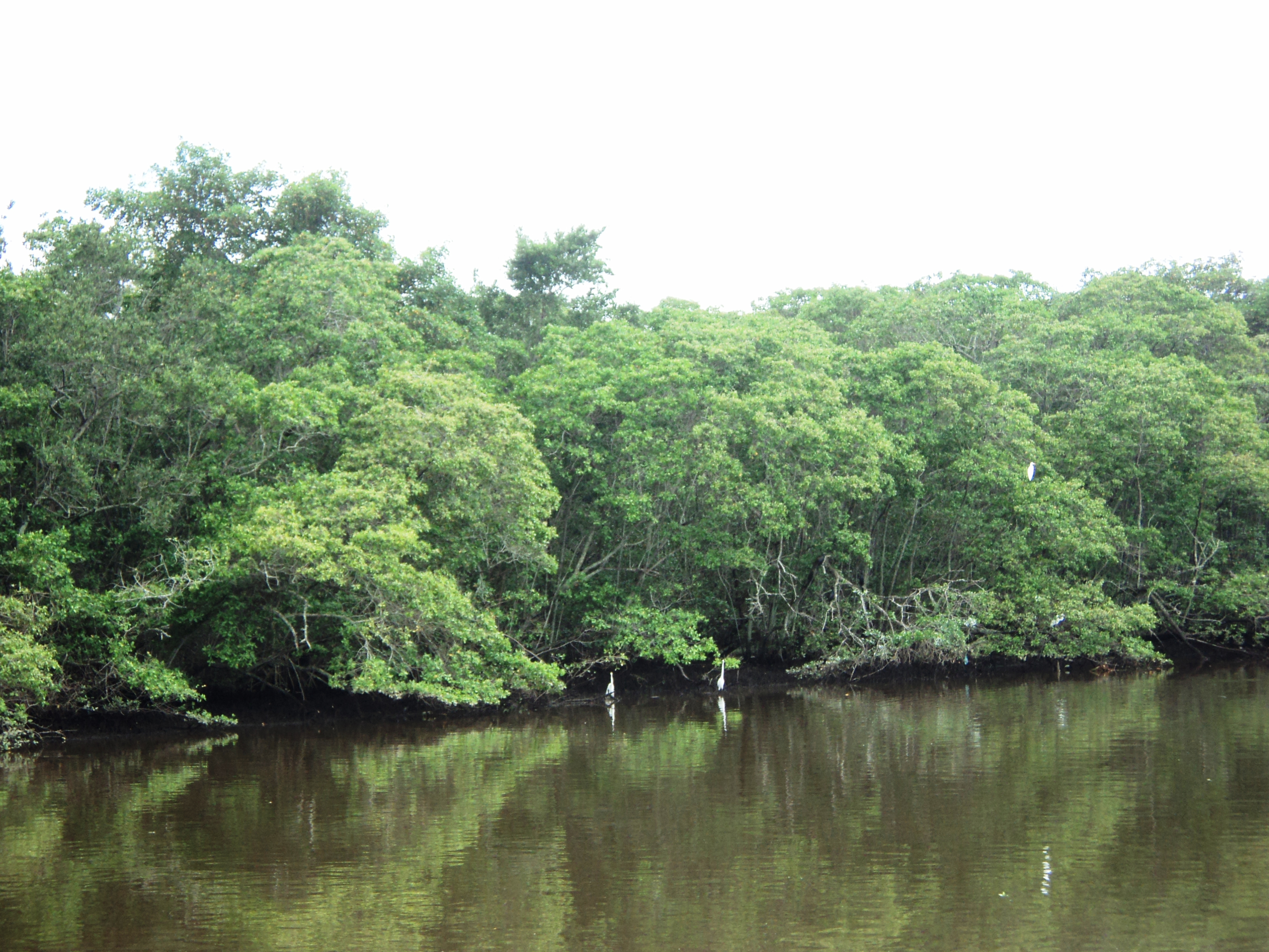 Herons in a mangrove of Piúma, Espírito Santo, Brazil.